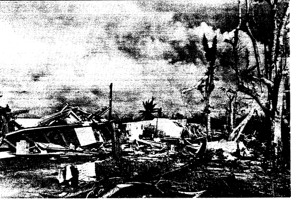 Damage to a building caused by Typhoon Karen in November 1962